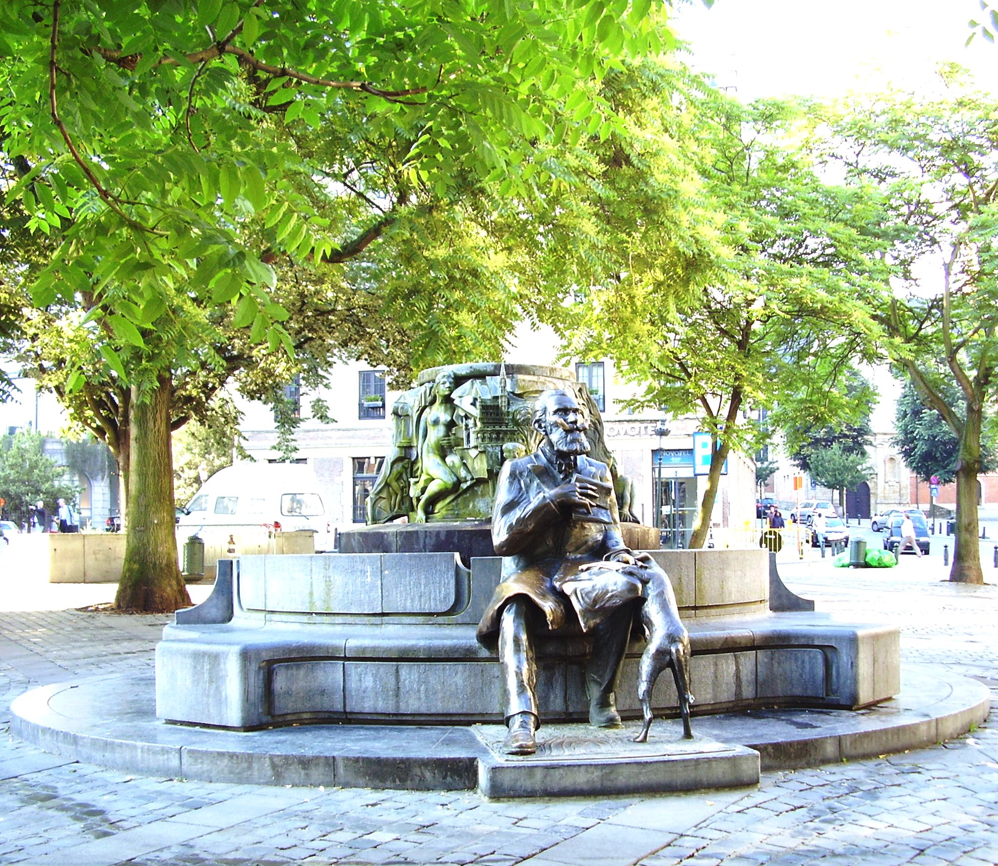 Description: Fontaine Charles Buls, Bruxelles Author: User:Ben2 Date of creation: 17 juin 2006 Source: Photo personnelle